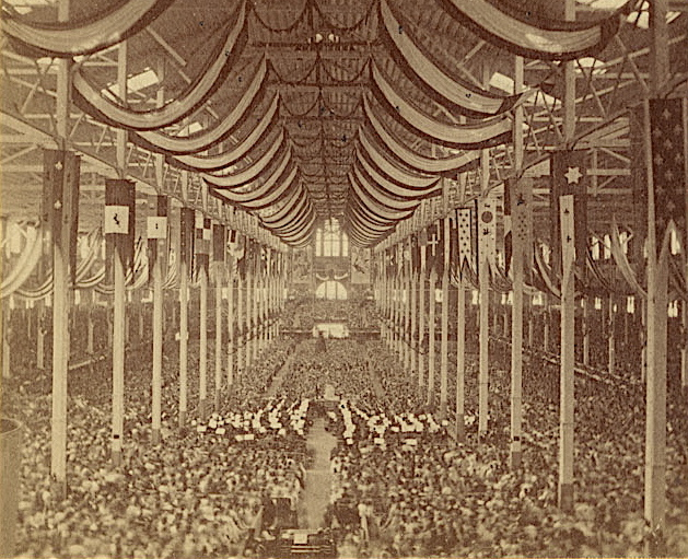 Accession No.: 06_11_000143 Title: Coliseum Interior Series: World's Peace Jubilee, 1872 Creator: Pollock, Charles Local Subject: Events Public Buildings Subject: Boston (Mass.) World's Peace Jubilee and International Musical Festival (1872 : Boston, Mass.) Pub. Date: c1872 Date of Creation: 1872 Description: On verso: "Boston Coliseum"; Charles Pollock, copyright holder Format: Derived from stereograph BPL Department: Print